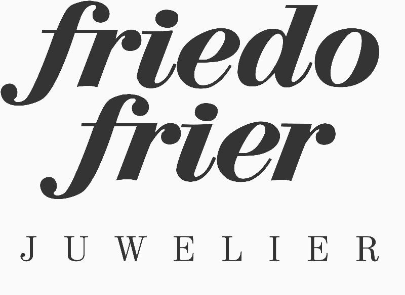 Logo